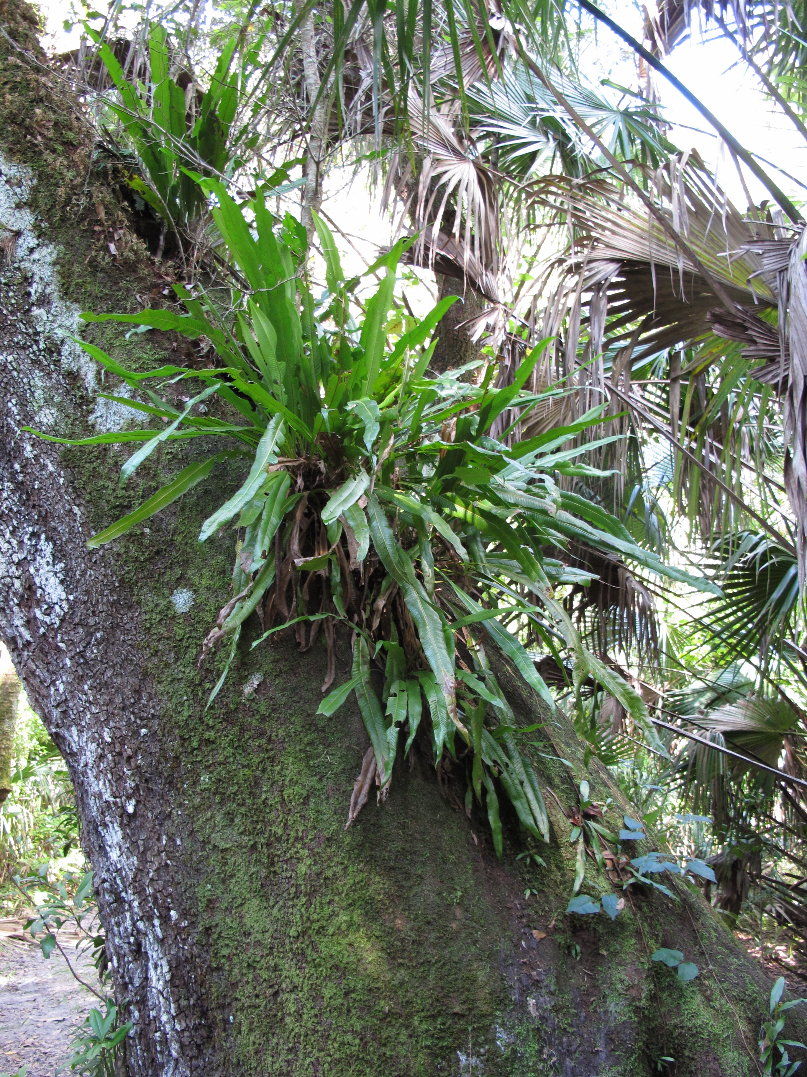 Highlands Hammock State Park, Highlands County, Florida, USA.